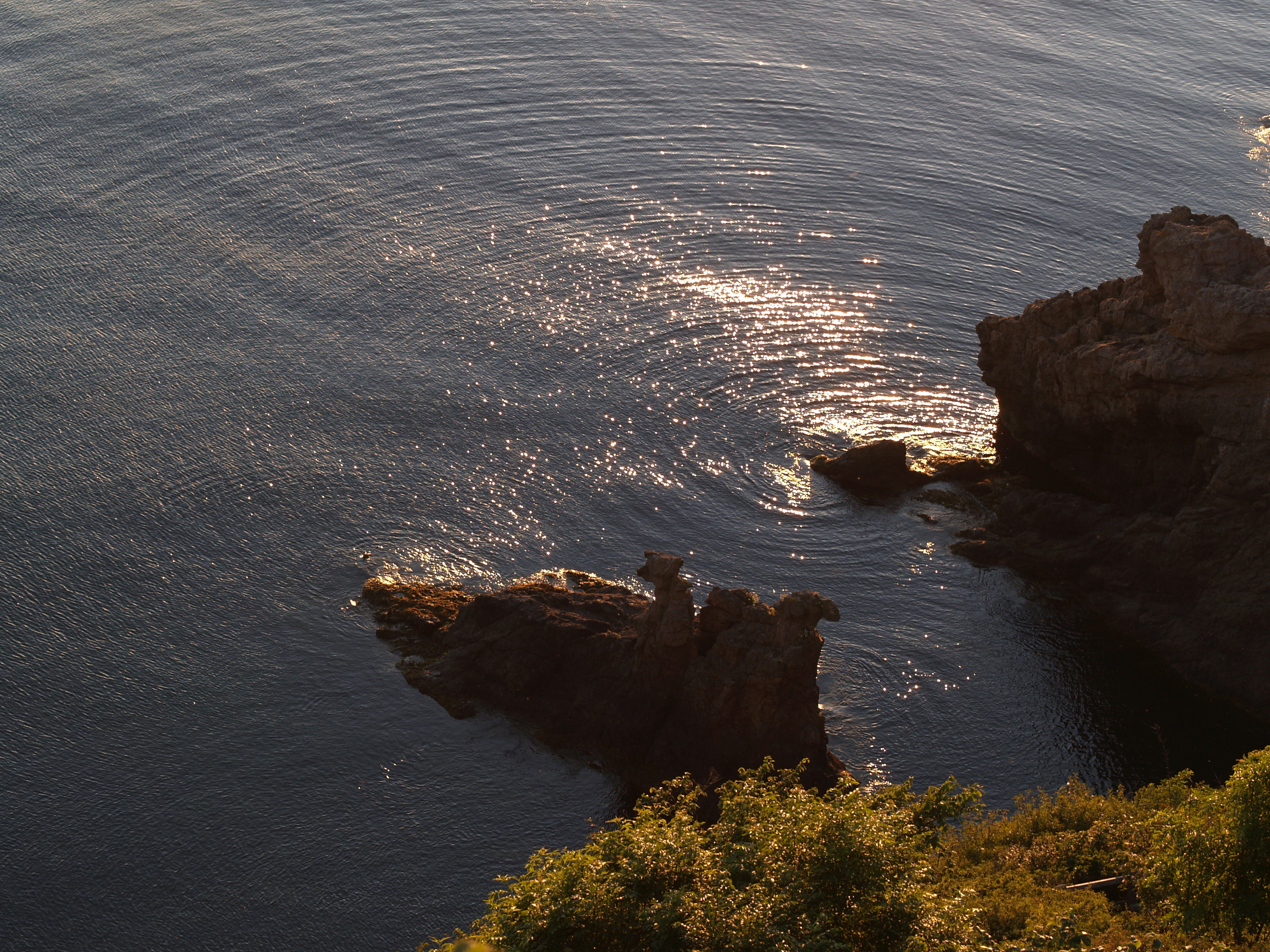 Water waves at sea